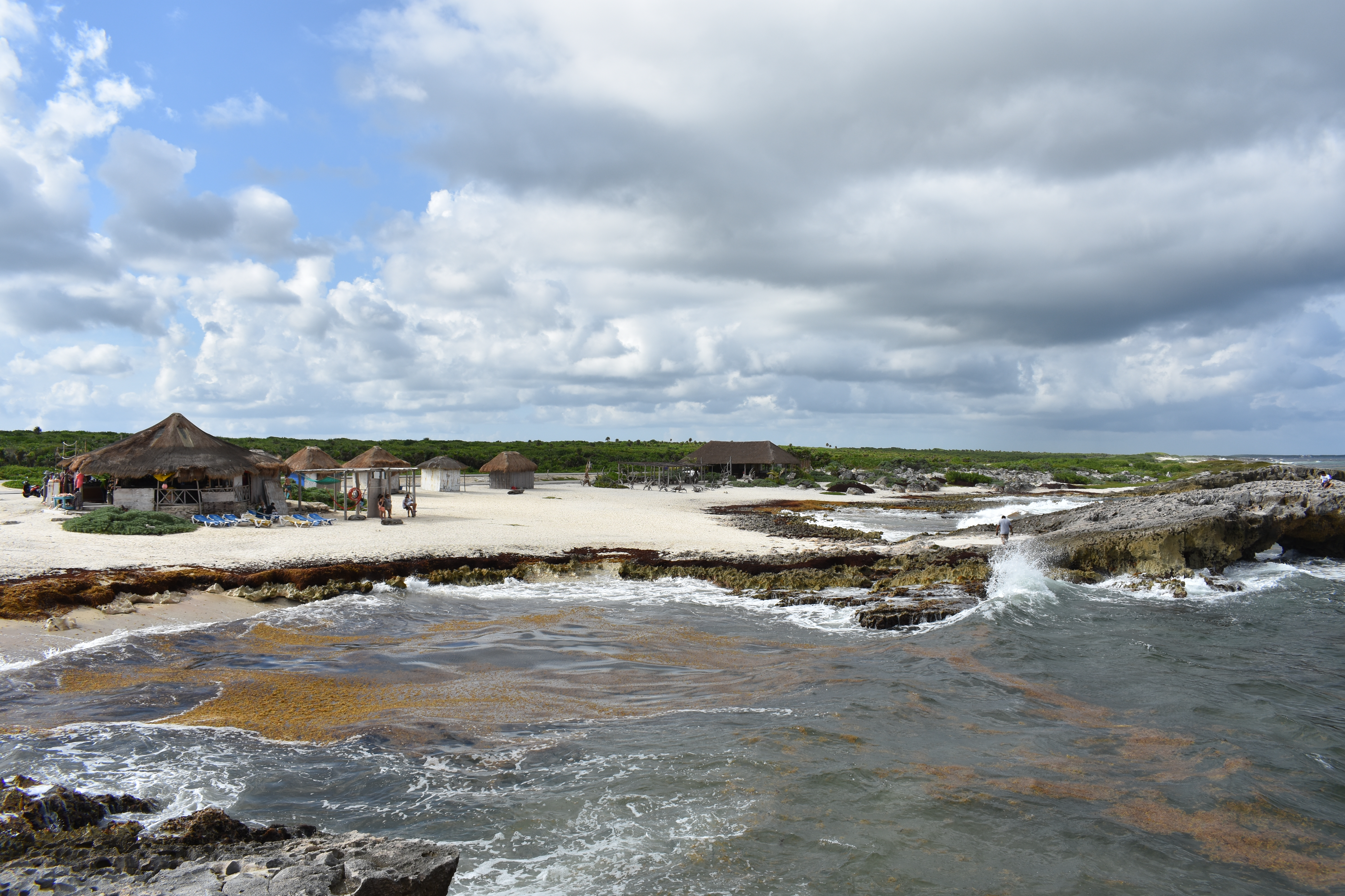 View of the beach at Playa El Mirador in Cozumel, Mexico